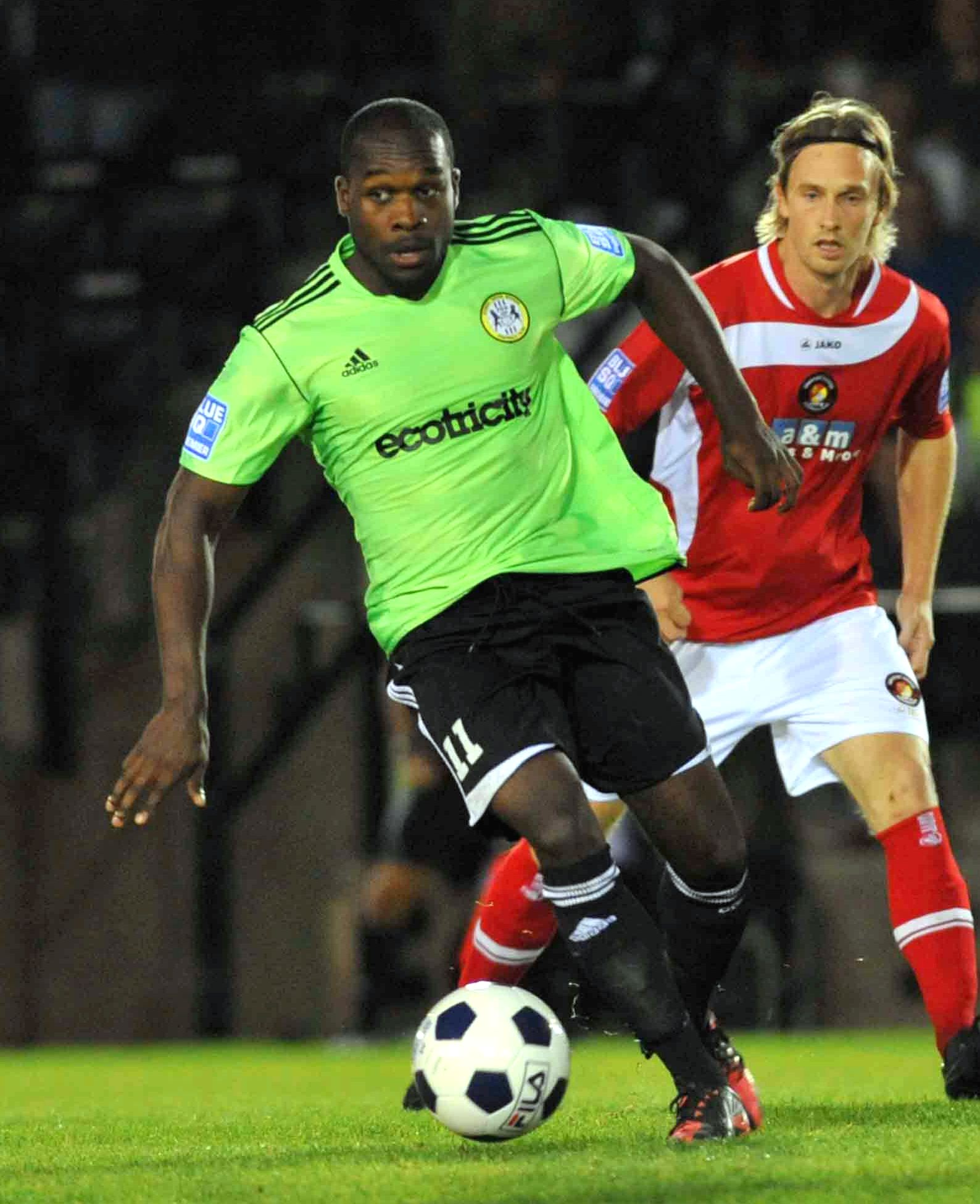 Kieron Forbes playing for Forest Green Rovers during 2012/13 season.